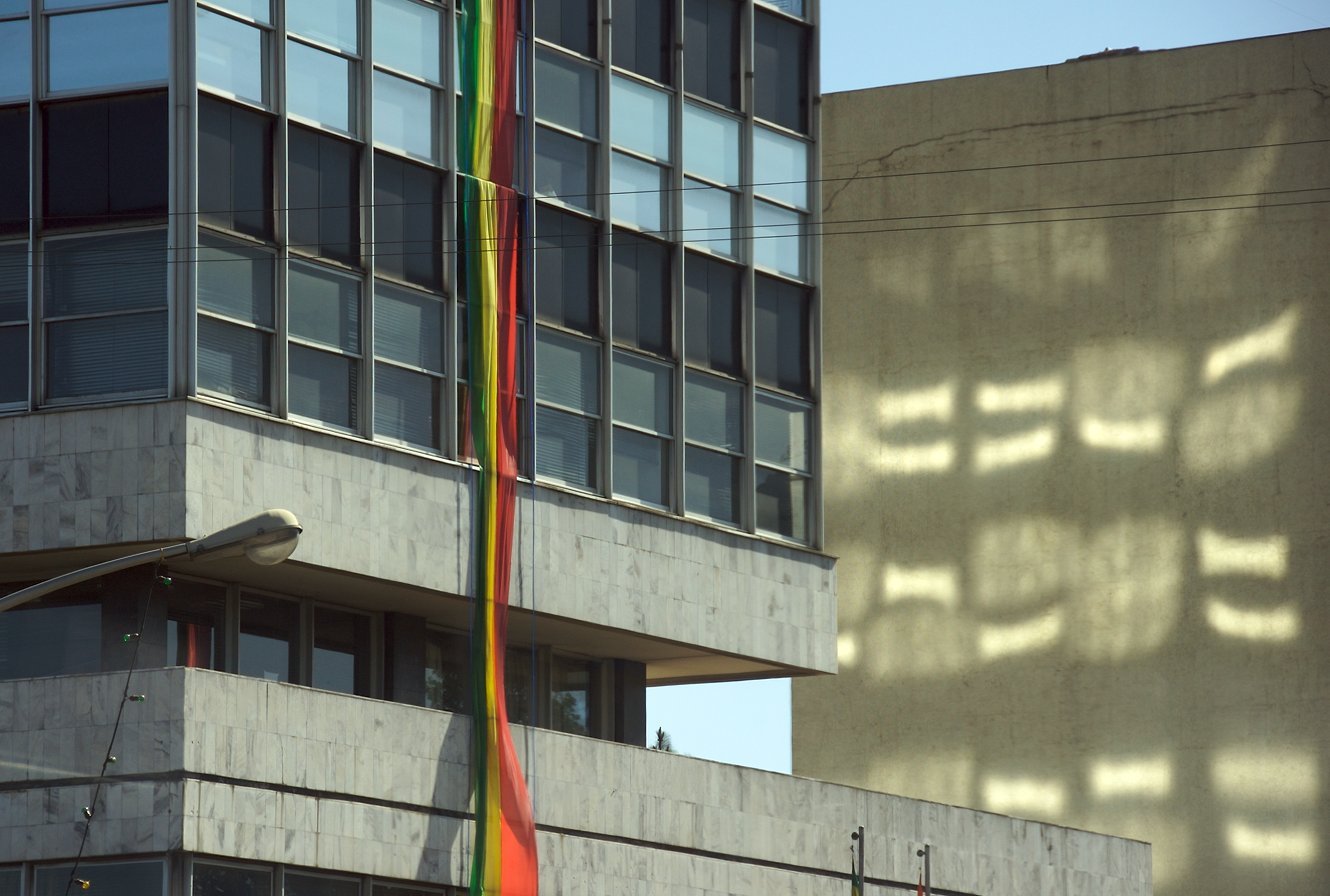 A building in downtown Addis Ababa, Ethiopia, sports bunting in the Ethiopian national colors of green, yellow and red to mark the Ethiopian Millenium. In Ethiopia, which uses its own distinctive calendar, the year 2000 commenced on September 11, 2007. For more information about the Ethiopian calender, see